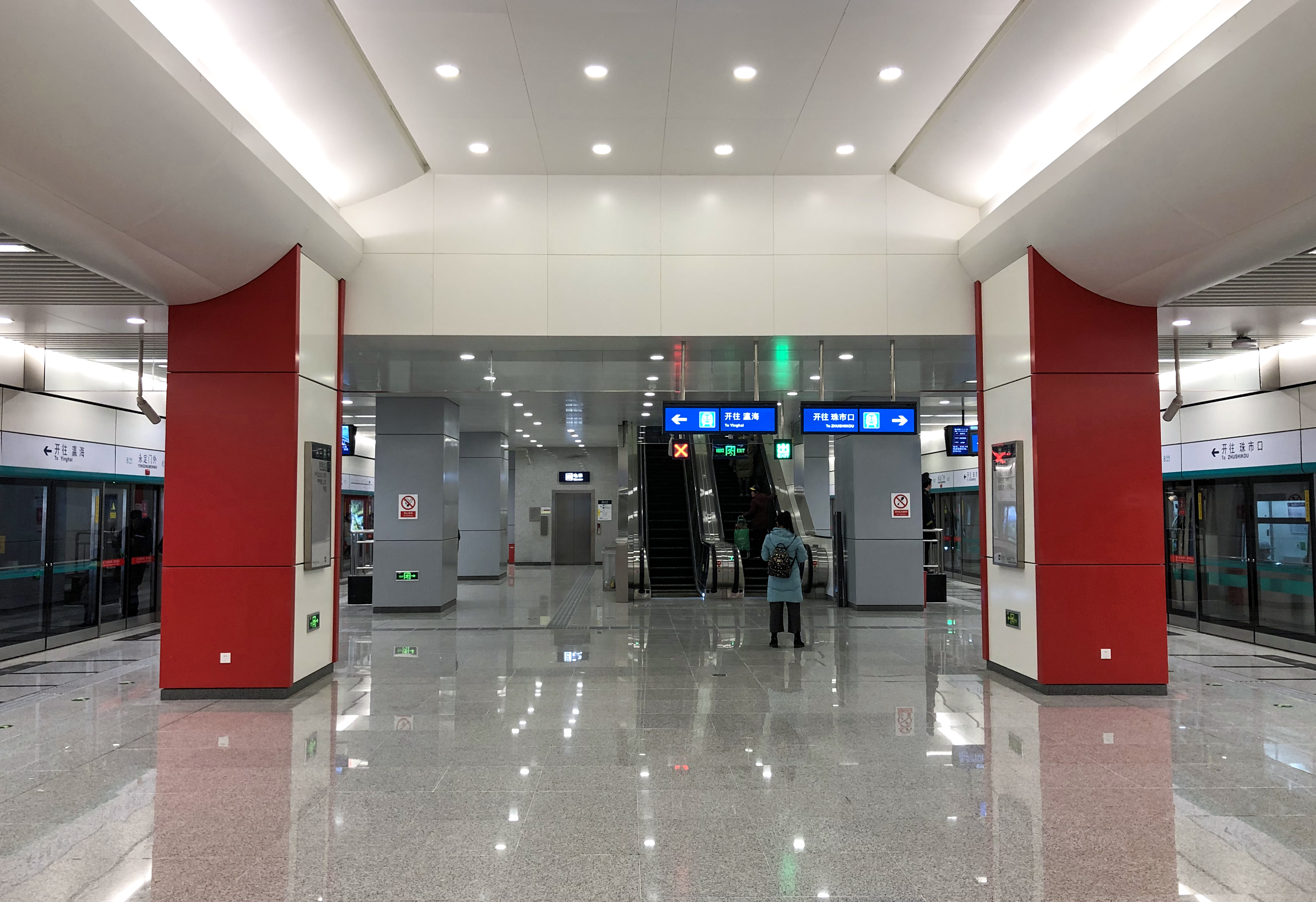 Now arriving at Shazikou.